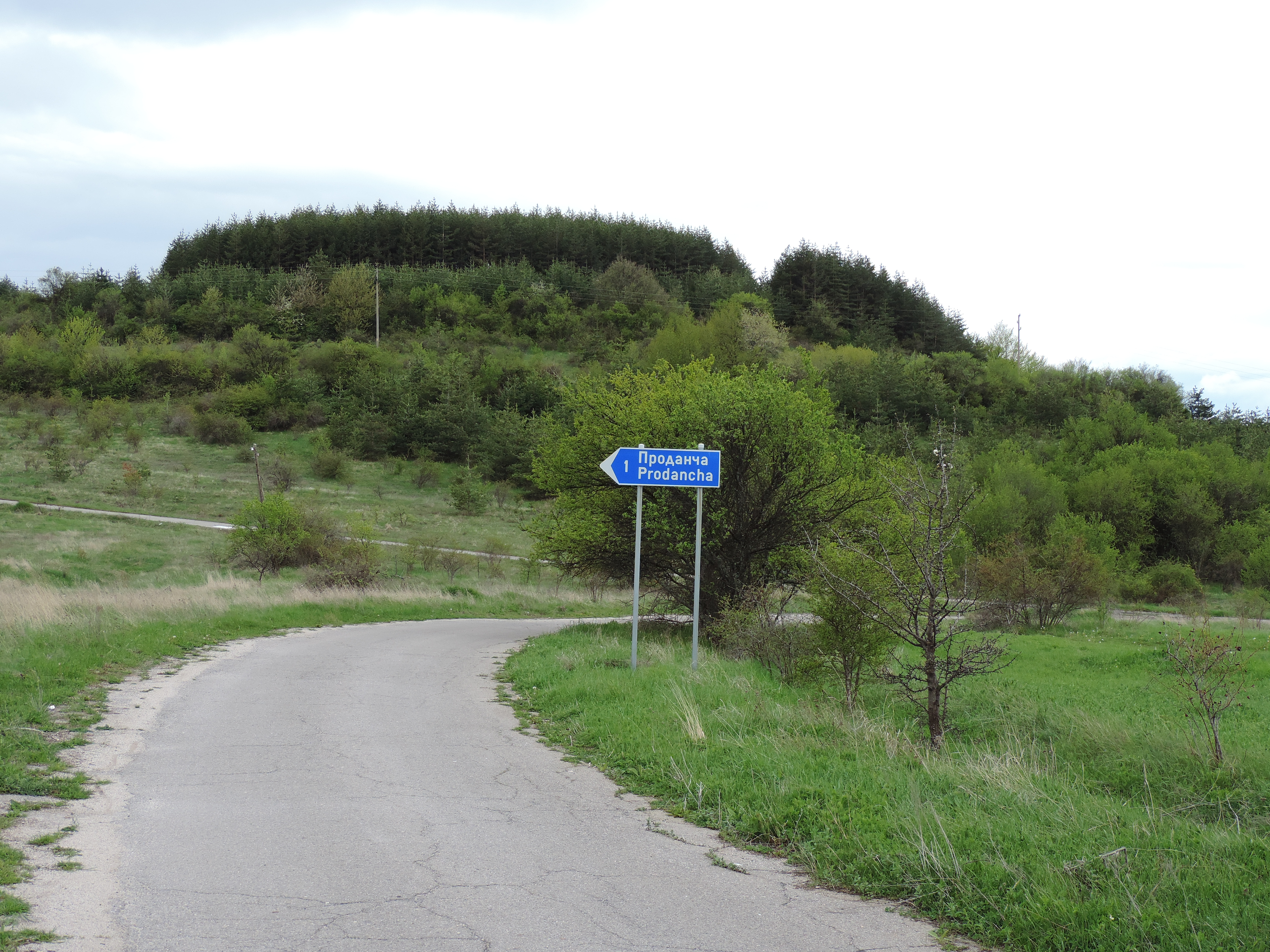 Road 813, Dragoman-Tran, Bulgaria.